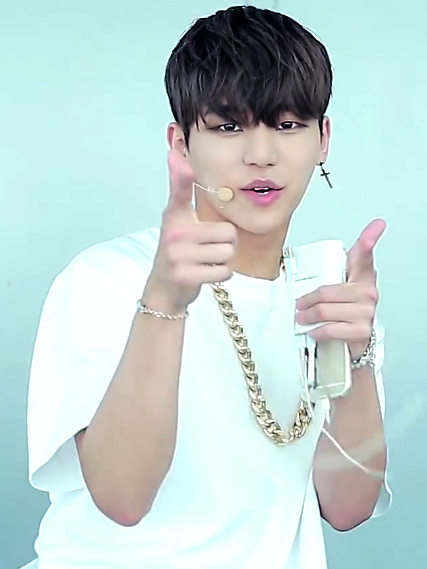 Kang In-soo in episode 49 of Life Theater of Myname.